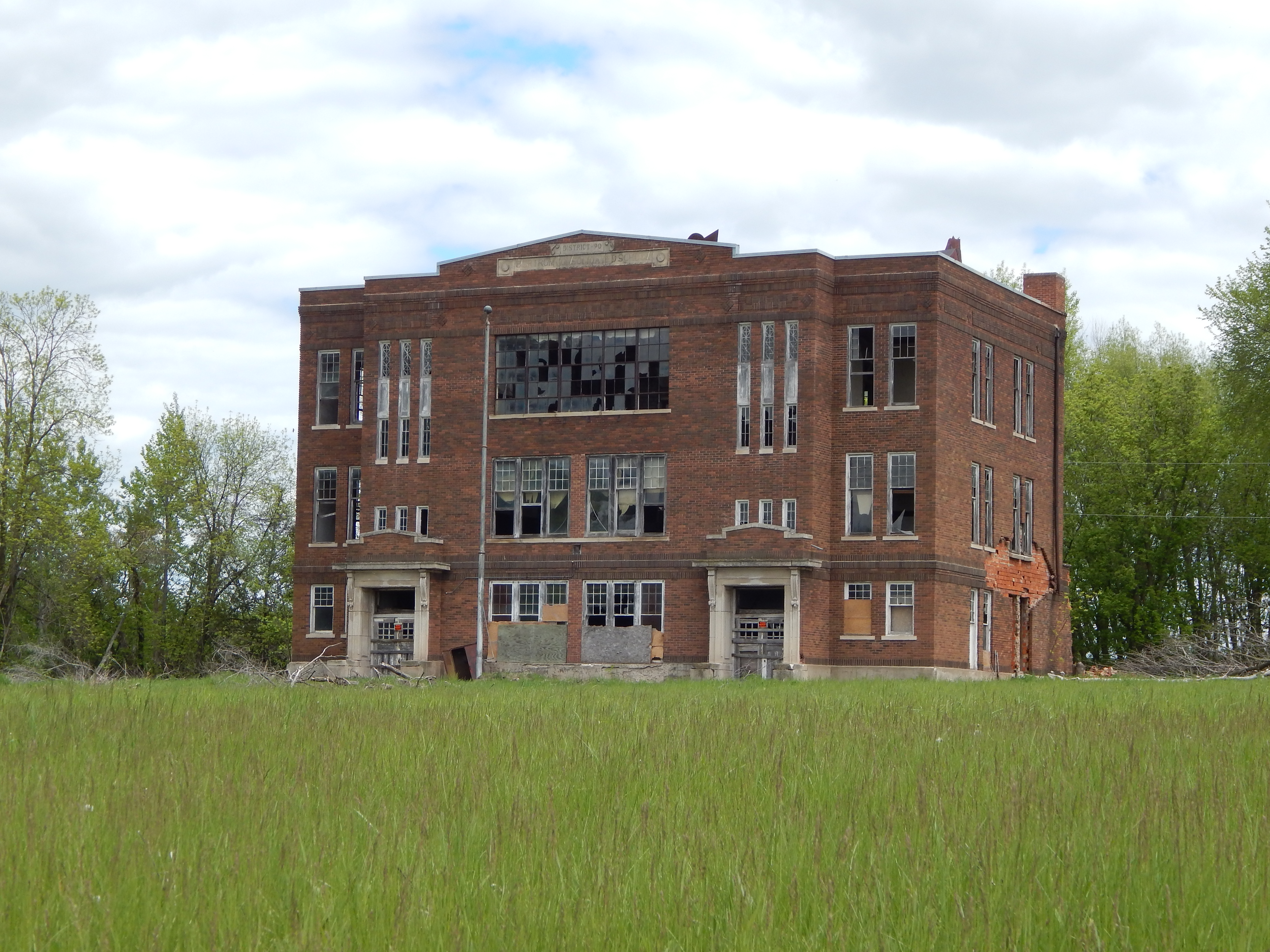 This school was built in the 1890's and was closed in the early 1980's the date of the photo taken is incorrect. (bad Wikipedia HTML)